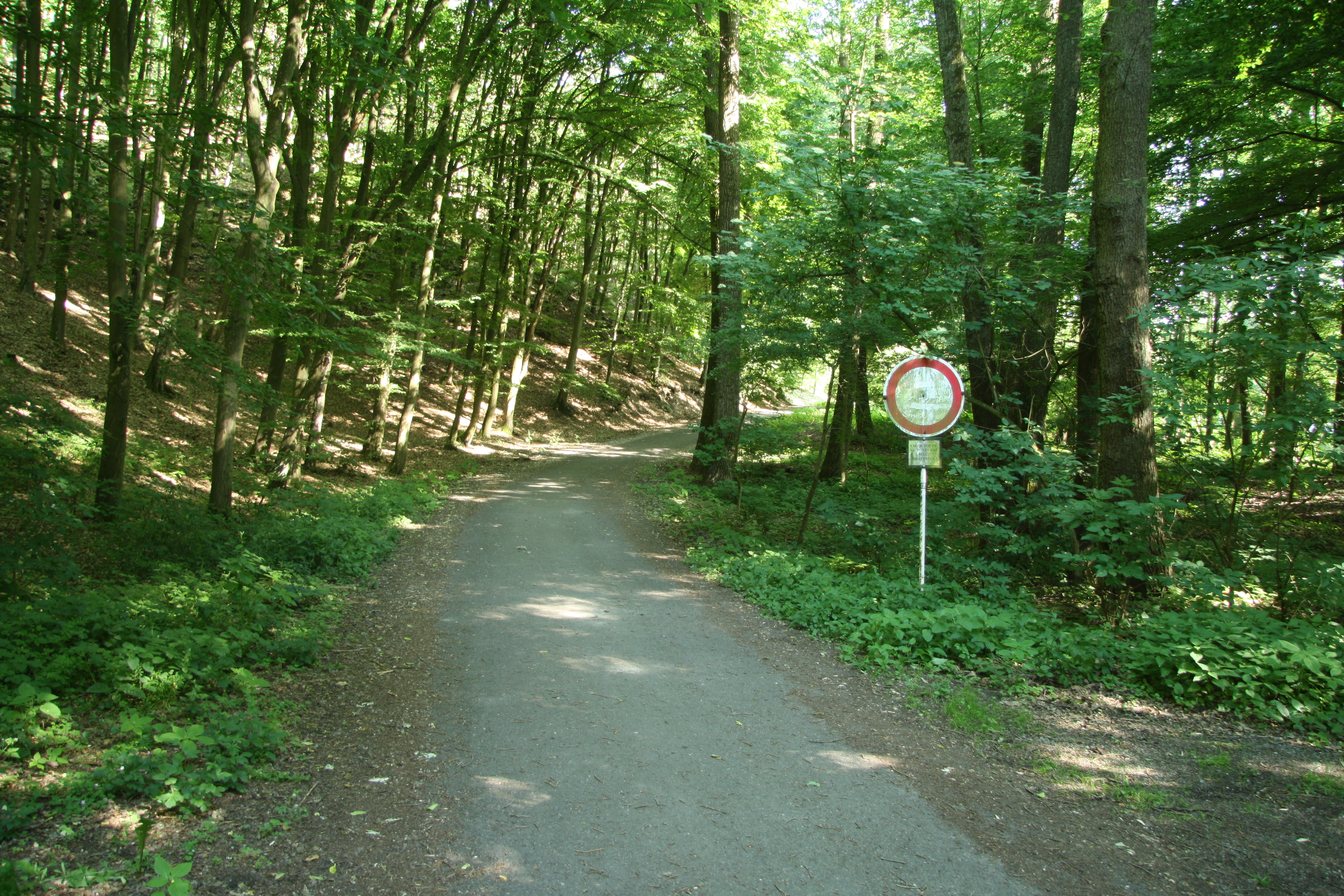 Path of Educational trail Nové rybníky (New ponds) in Hrotovice, Třebíč District.